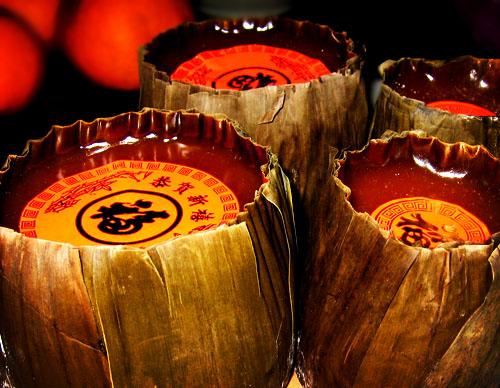 Nian gao. It's a custom to eat nin gou during Chinese New Year as it symbolises the bond in the family. It's sticky and sweet, which shows the togetherness in the family. Some people buy them to be given as offerings during prayers.